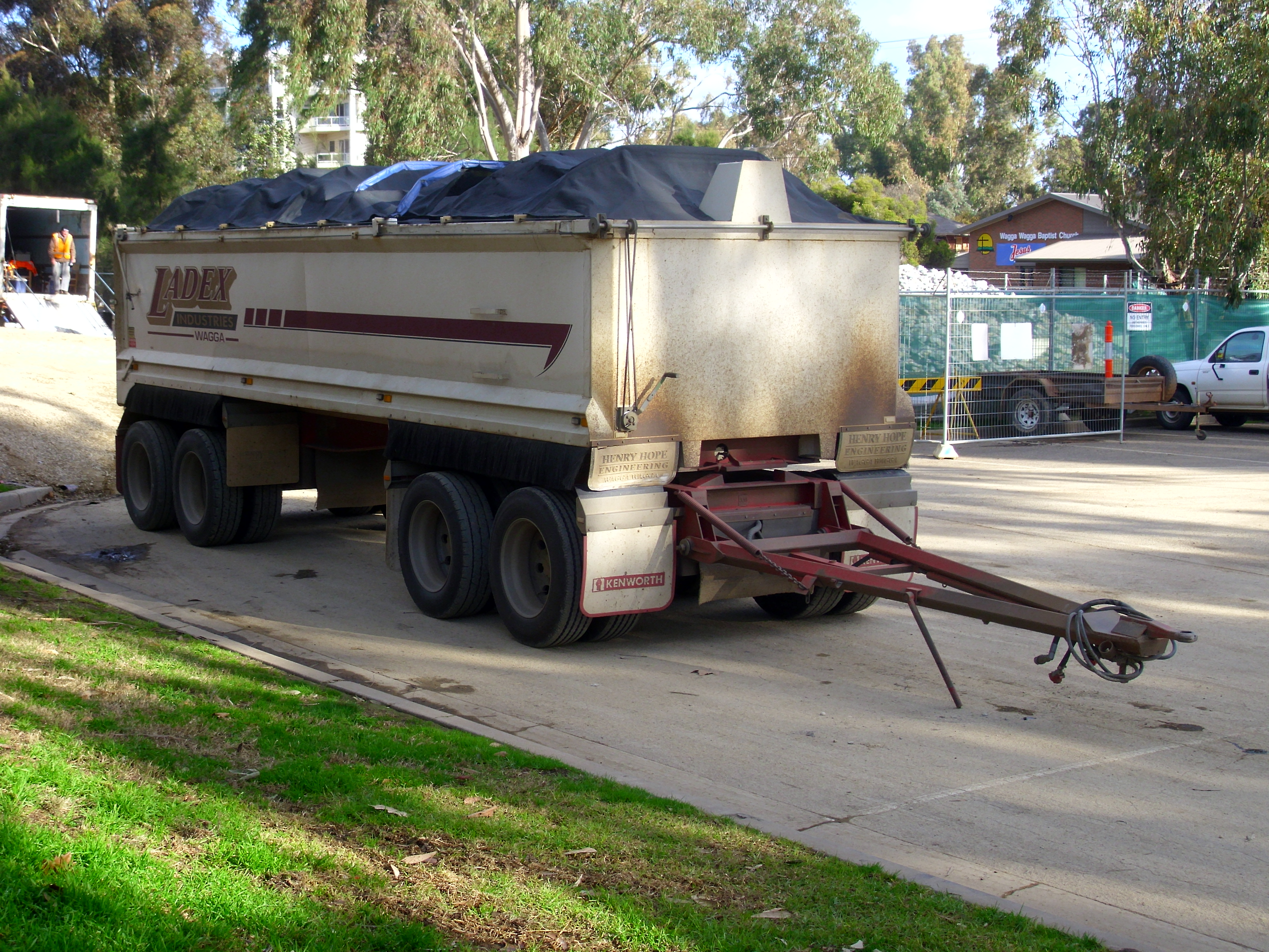 Quad dog trailer in Wagga Wagga, New South Wales.